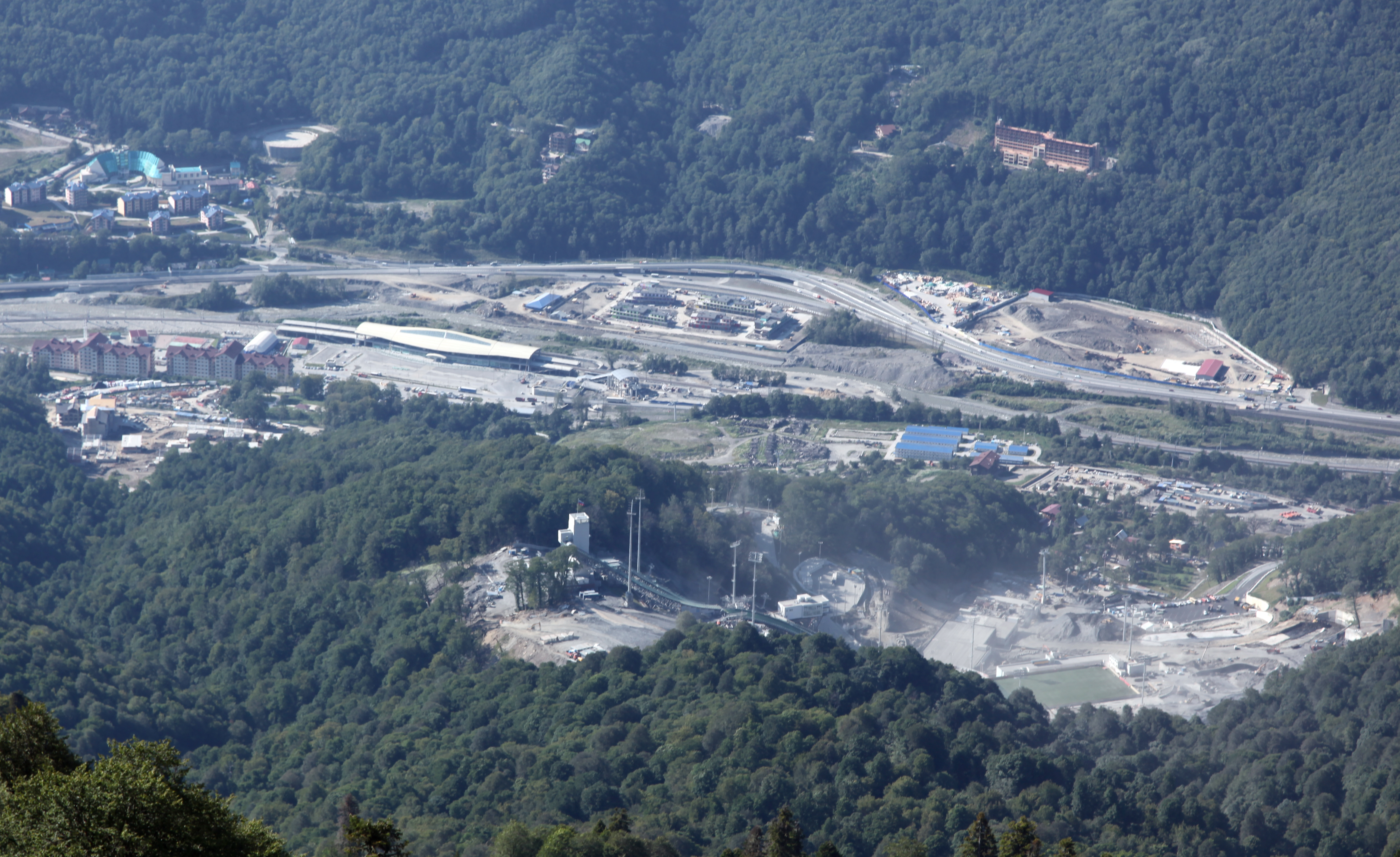 The unfinished Russki Gorki ski jump arena in Estosadok, Sochi, built for the Olympic Games 2014